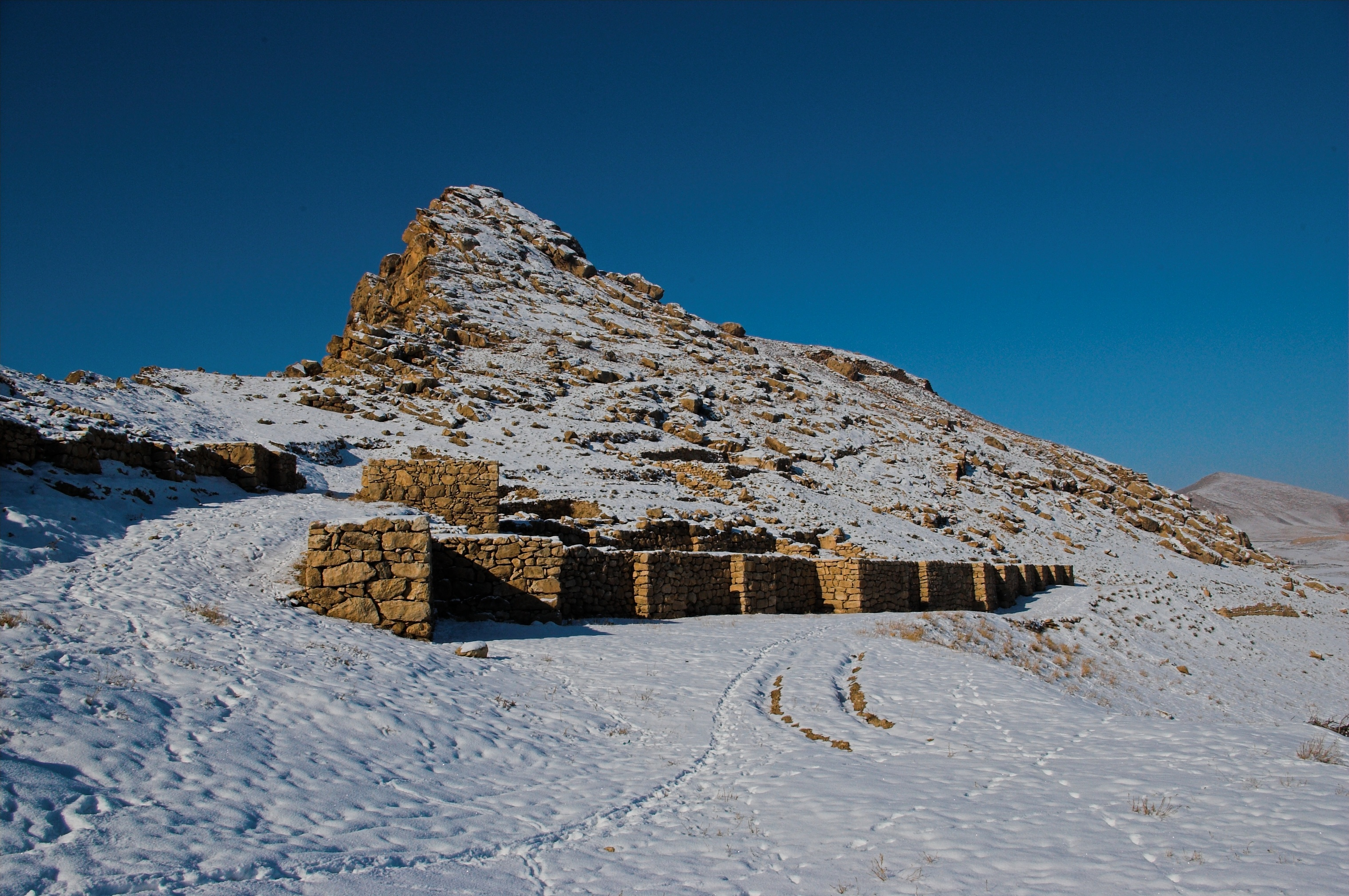 Bastam (Rusa-i Uru Tur in elamite) is one of the principal urartian fortresses. It's the second biggest one after Tushpa. The site was populated from the third mill. BC to seventh century BC.